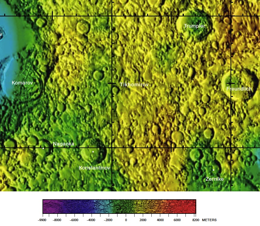 Part of the USGS far side lunar chart